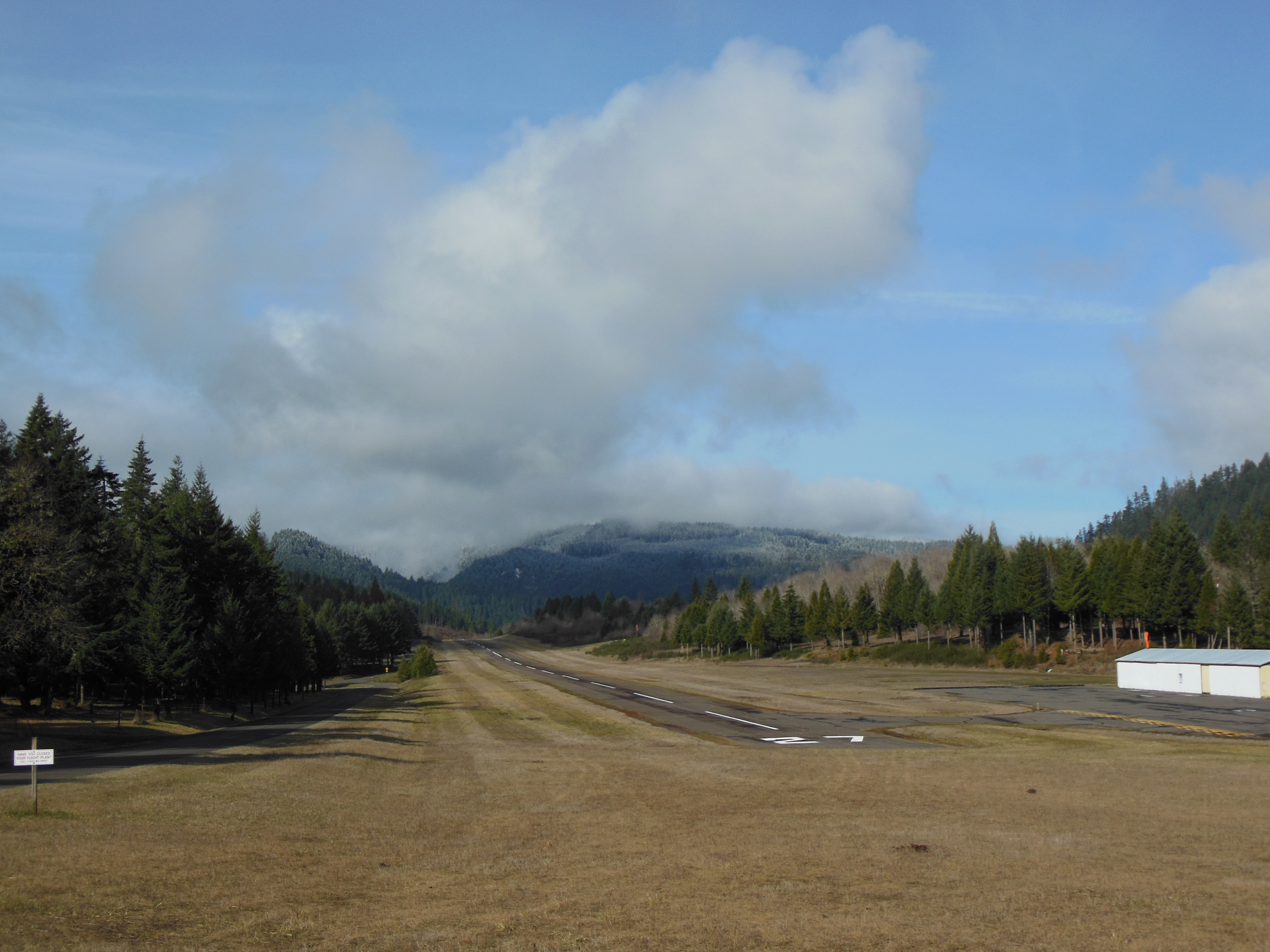 The Oakridge State Airport just west of the city of Oakridge in Lane County, Oregon, United States